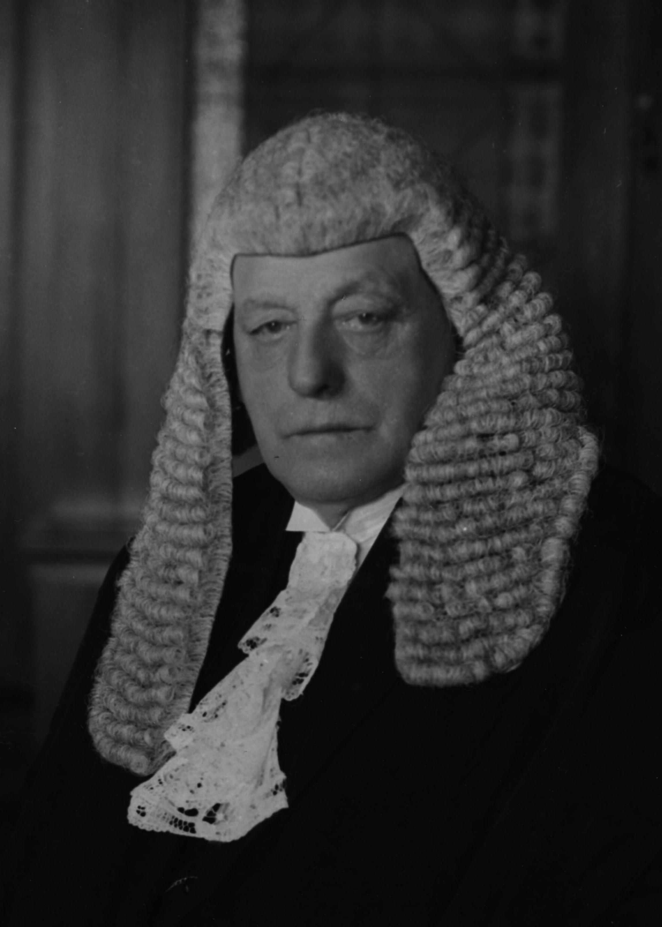 Australian politician John Blyth Hayes, in the garb of the President of the Senate